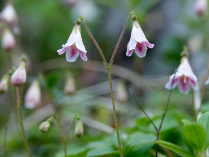 A twinflower in Kolari, Finland